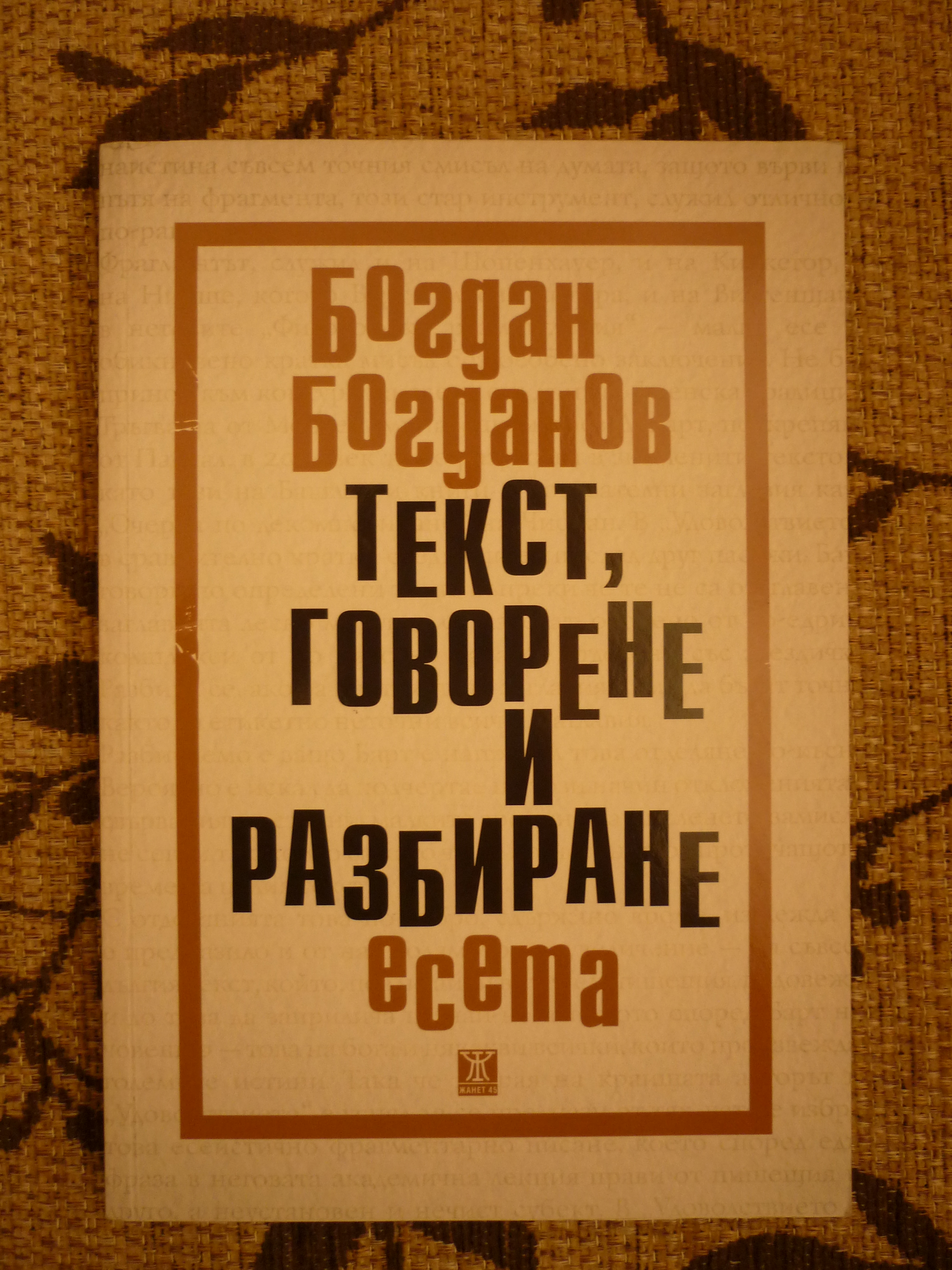 „Text, Talking and Understanding“, cover of the first Bulgarian edition, 2014